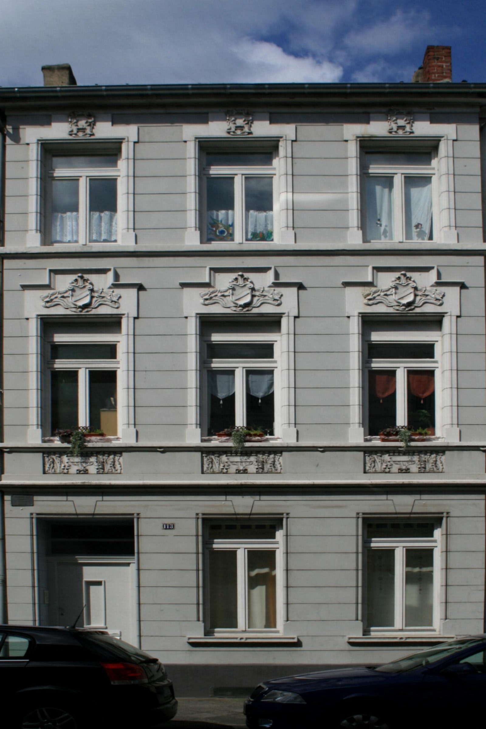 Cultural heritage monument No. R 019 in Mönchengladbach